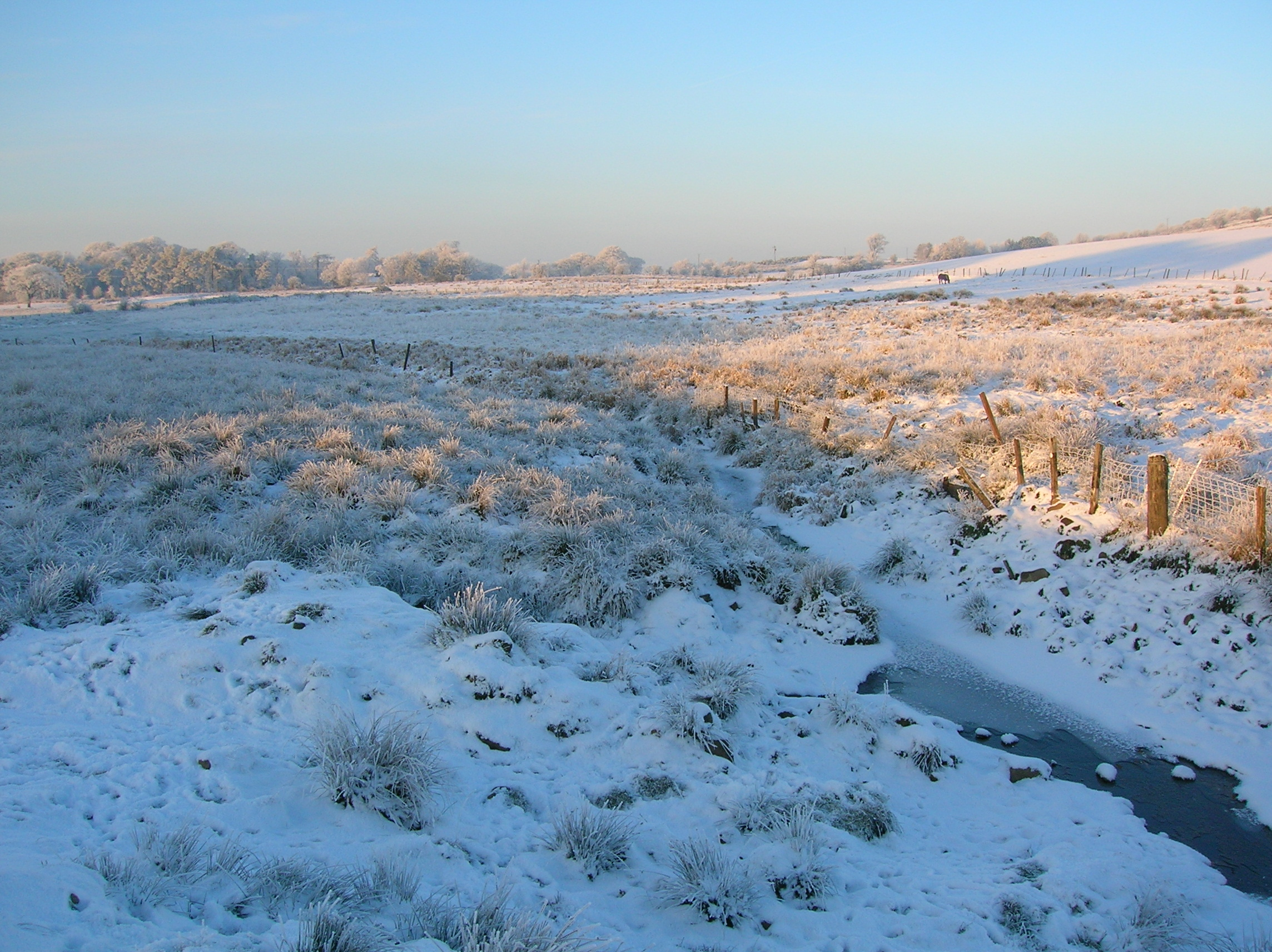 Loch Brand's site and drainage ditch from below the site of Hill of Beith Castle, North Ayrshire, Scotland.